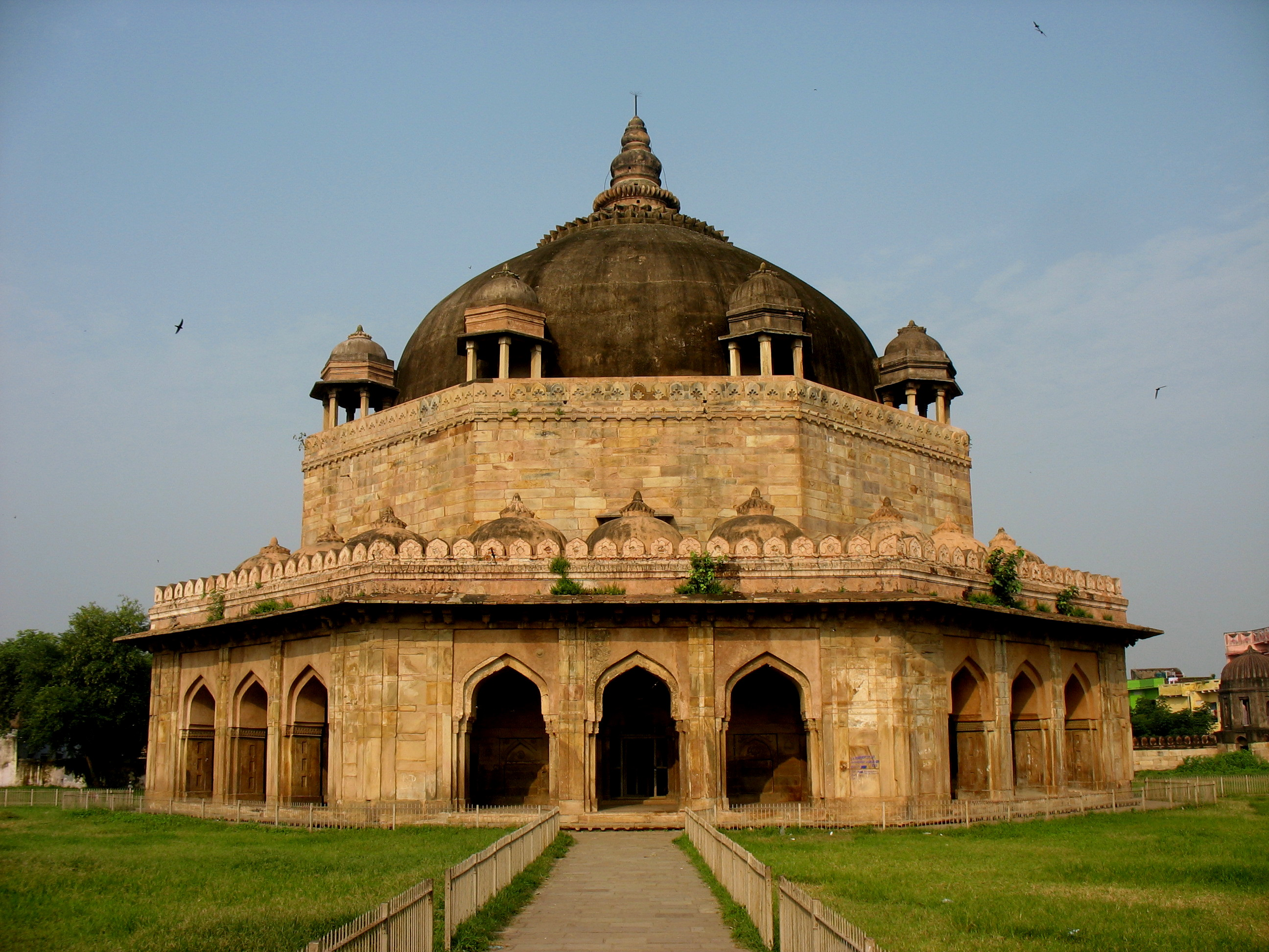 This octagonal shaped tomb of Shershah's father was built by Shershah at Sasaram, Bihar. It shows Afgani architect in primitive stage.